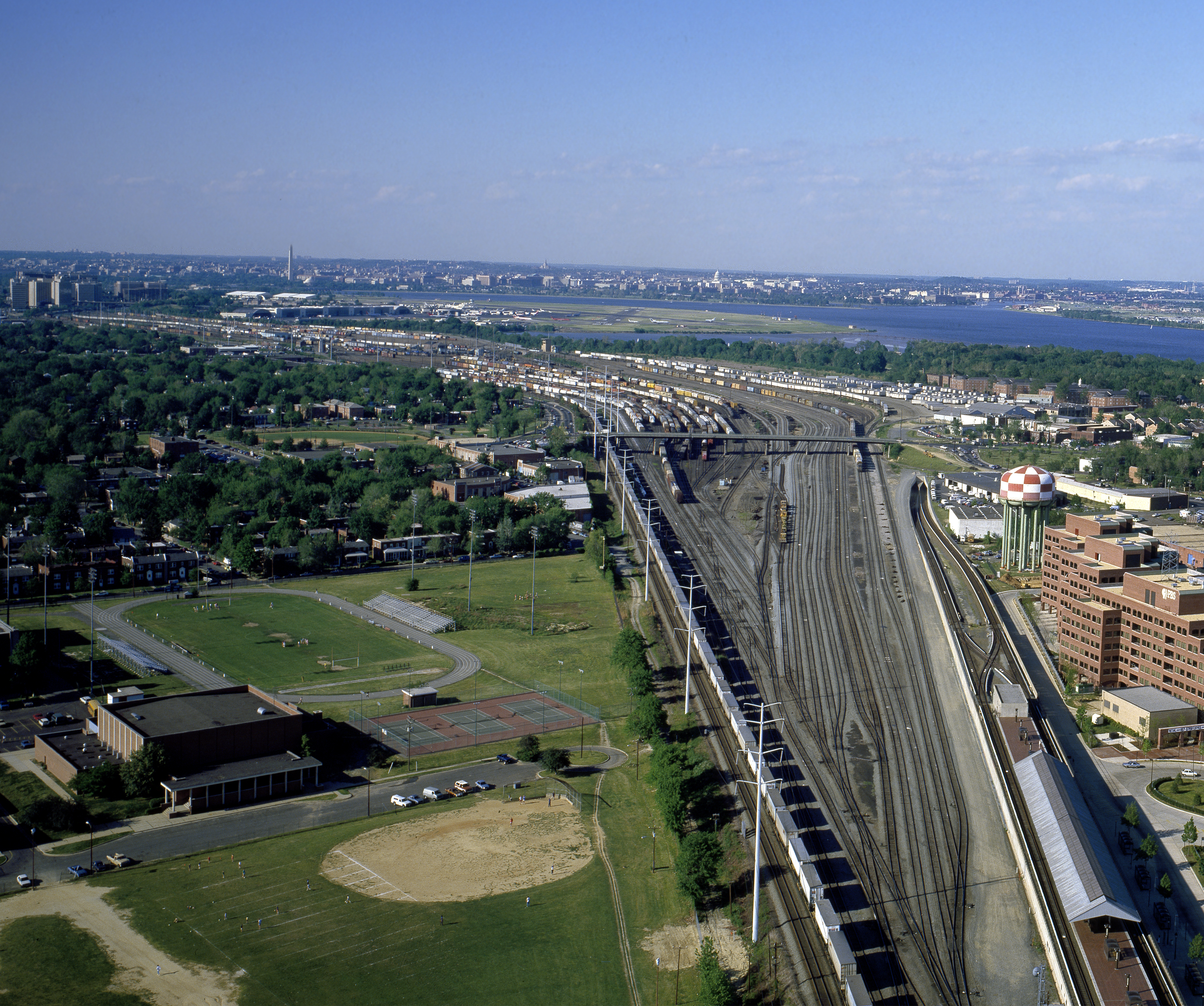 Aerial view of Potomac Yard in Arlington County and Alexandria, Virginia; looking north. The rail yard opened in 1906 and closed in 1989. In the lower right corner is the Braddock Road station of Washington Metro. Seen in the distance are National Airport, the Potomac River and Washington, D.C. Cropped photo.